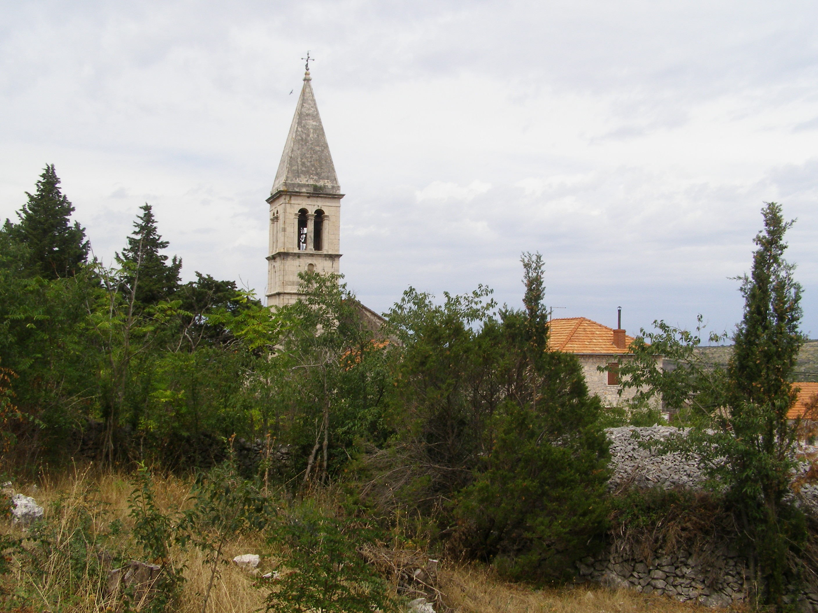 Church, Dracevica, Brac, Croatia